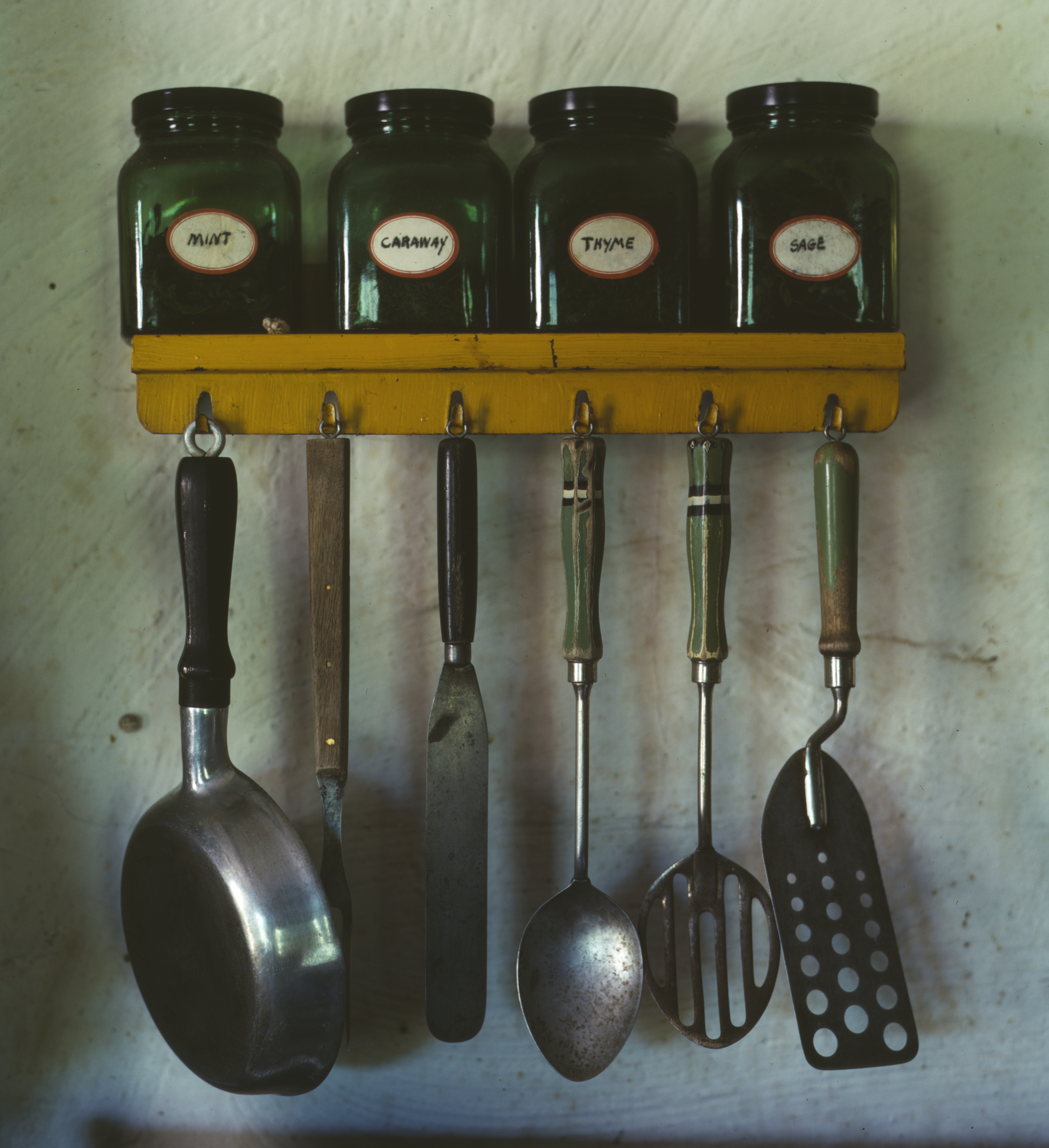 Kitchen utensils, including a small pan, meat fork, icing spatula, whole and slotted spoons, and a perforated spatula, hanging below a rack with mint, caraway, thyme, and sage jars.